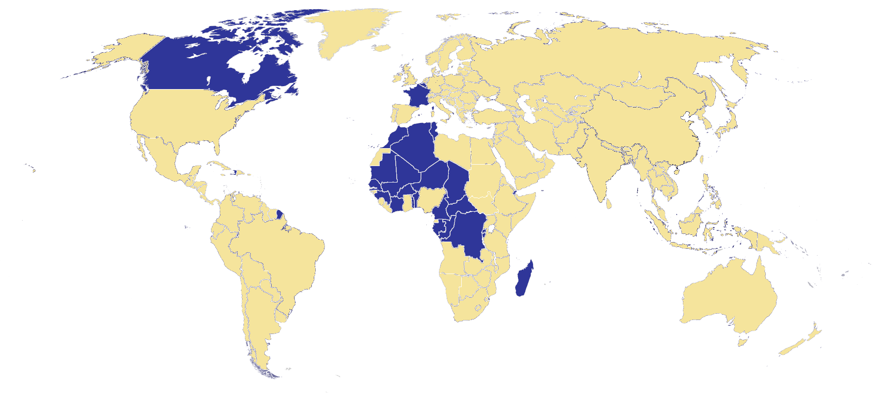 This map shows, in blue color, the countries where the French Wikipedia is the most popular language version of Wikipedia. The information has been sourced from here